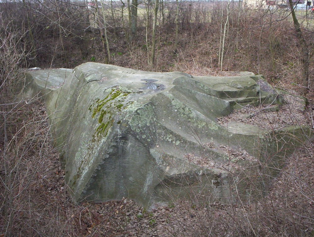 Glacial erratic (Mszczonów stone) in Zawady (powiat skierniewicki), Poland.